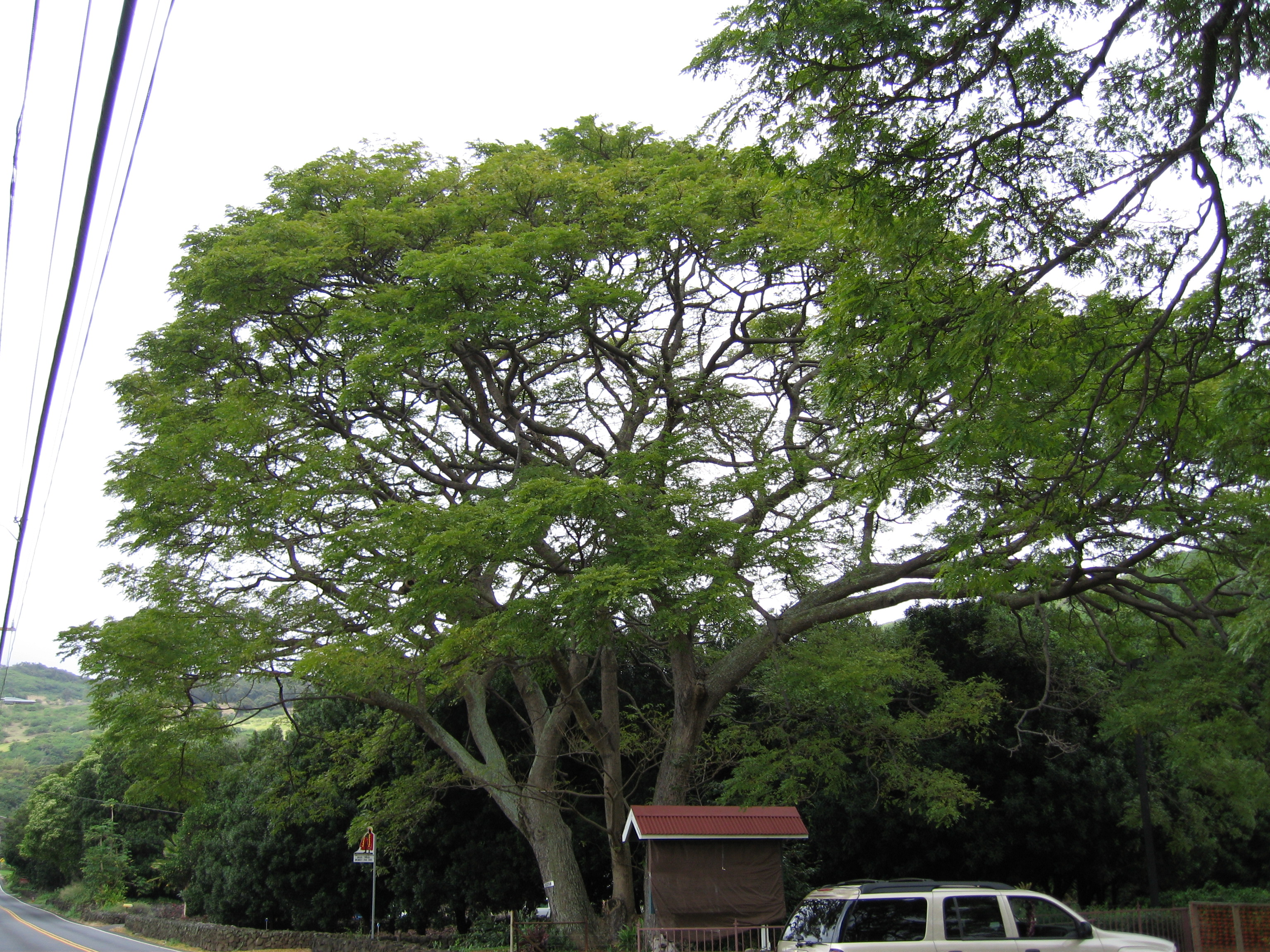 A historic Monkey pod tree (Albizia saman) — in Waiohinu, on the Big Island—Hawaiʻi. Legend has it that Mark Twain planted the original one here in 1866. It blew down in 1957, but a shoot from it was replanted, and grew into the large tree seen here.